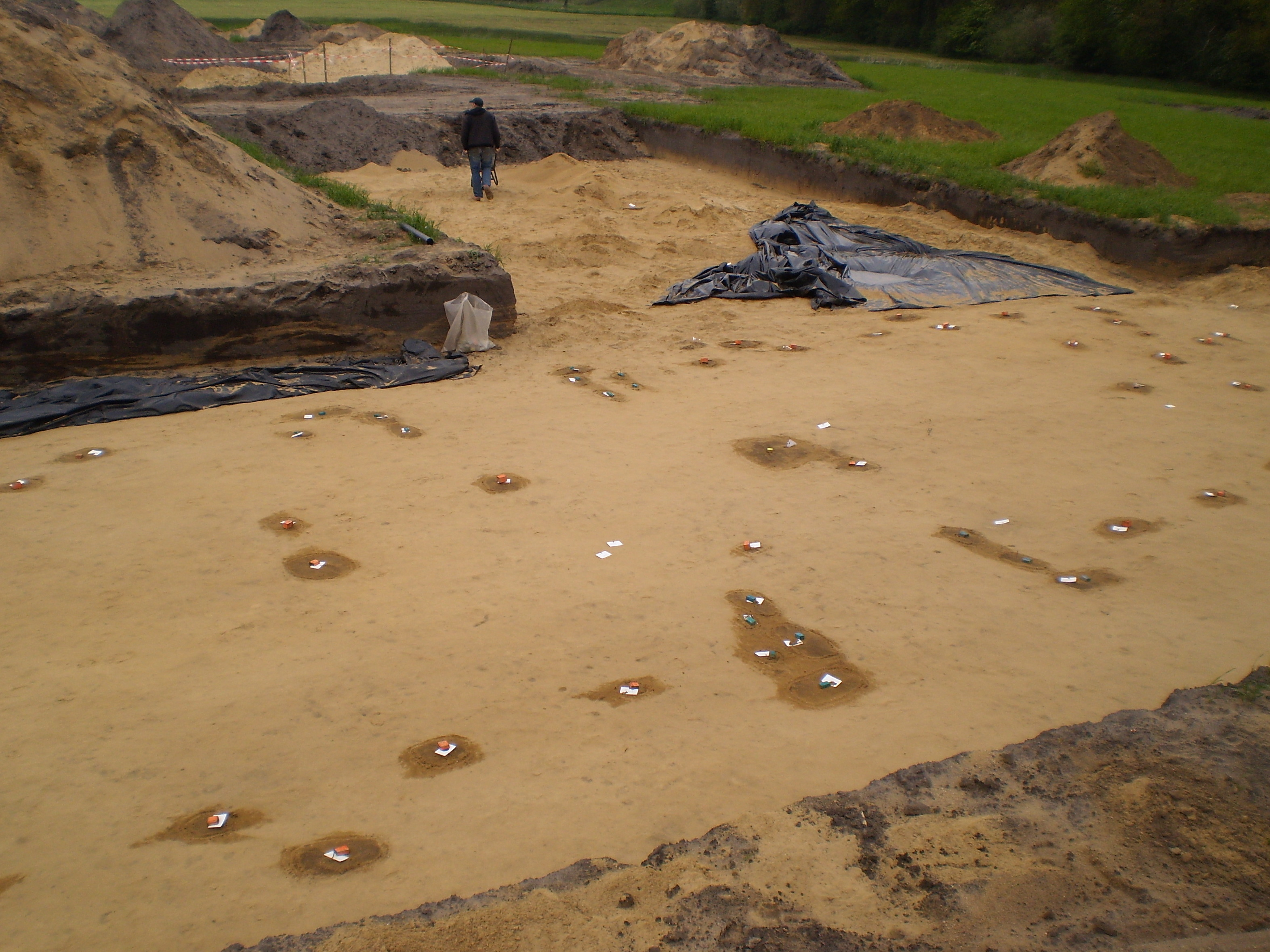 Marked pole holes of an ancient farm at archaeological site near Deventer, the Netherlands